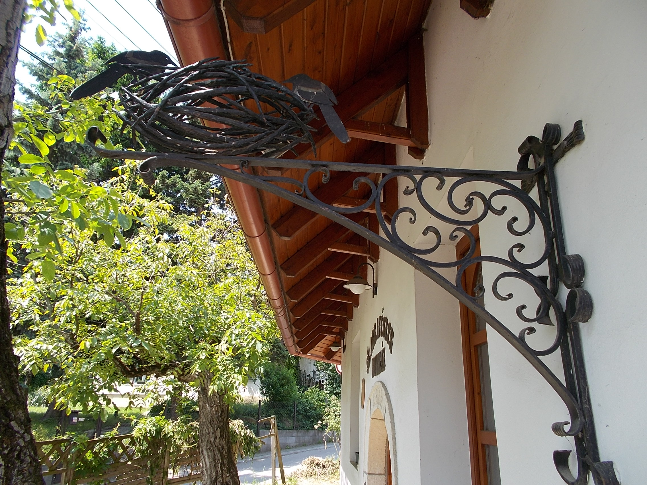 Torbágy, Biatorbágy, Pest County, Hungary.